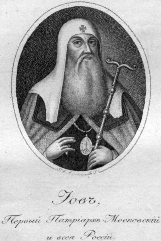 Patriarch Job of Moscow